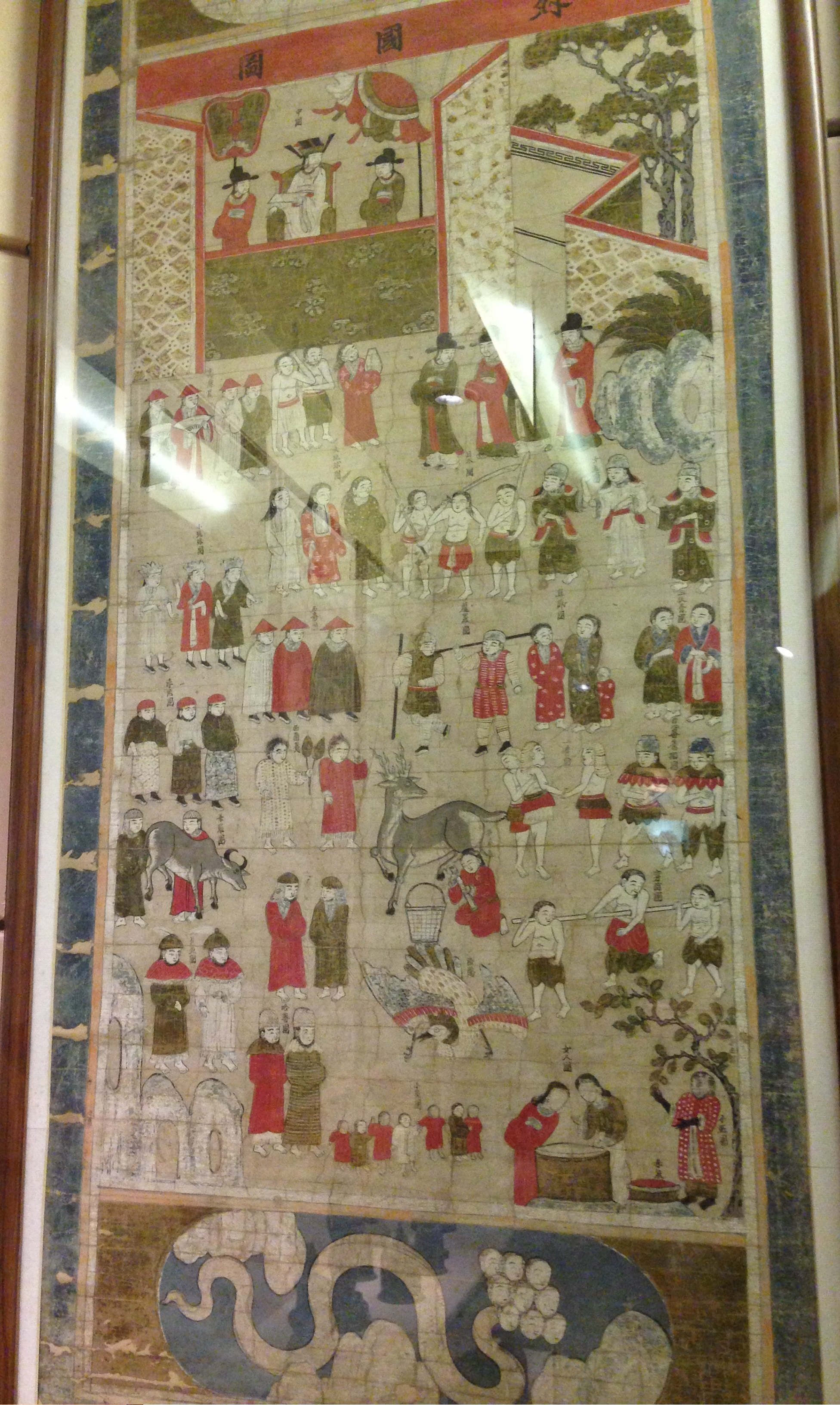 Ngoại Quốc Đồ (外國圖) is a Le dynasty painting depicting the foreign dignitaries and tributary legations to Dai Viet, included: Panduranga, Lan Xang, Siam, Ava, Demak, Cambodian, Mughal, Safavid and Ryukyu, around 16th century. The Le court is described as the "Middle kingdom" (中國).